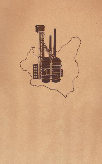 Sztafeta (Relay race), book of literary reportage by Melchior Wańkowicz published by Biblioteka Polska in early 1939 (first edition, front cover)